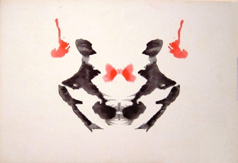 the third blot of the Rorschach inkblot test